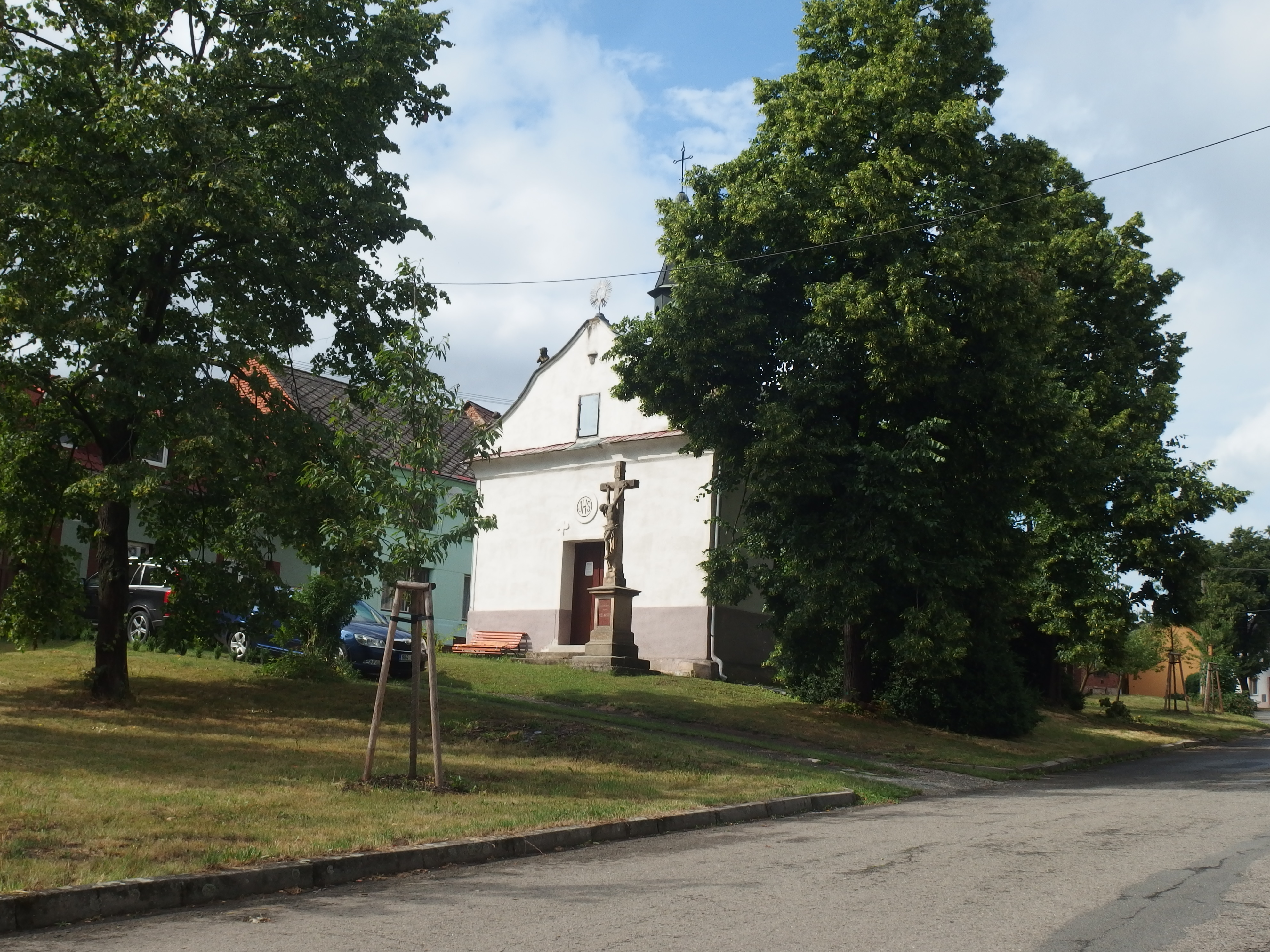 Brodek u Přerova, Přerov District, Czech Republic, part Luková.